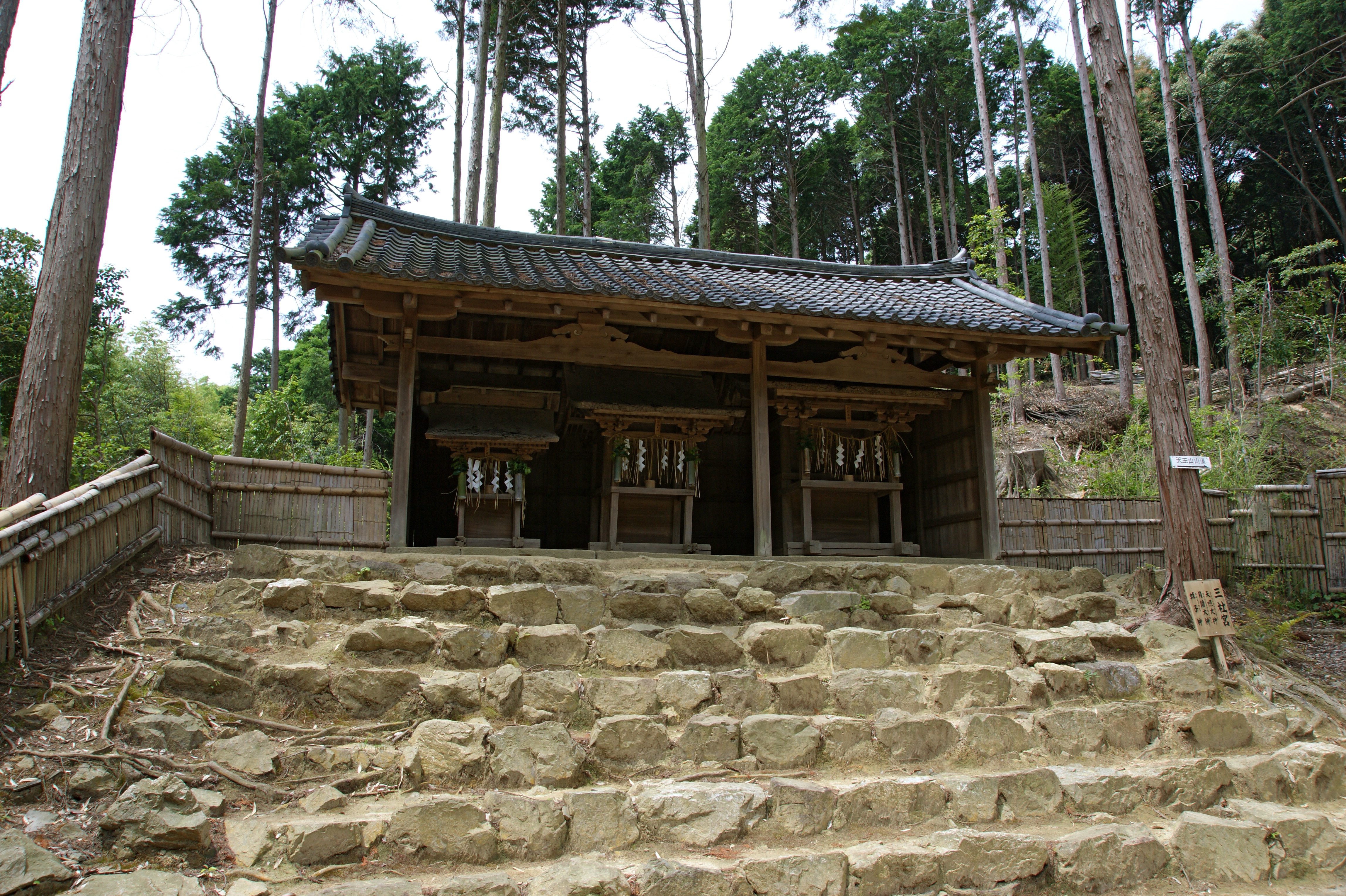 Sakatokejinja in Oyamazaki-cho, Otokuni-gun, Kyoto prefecture, Japan